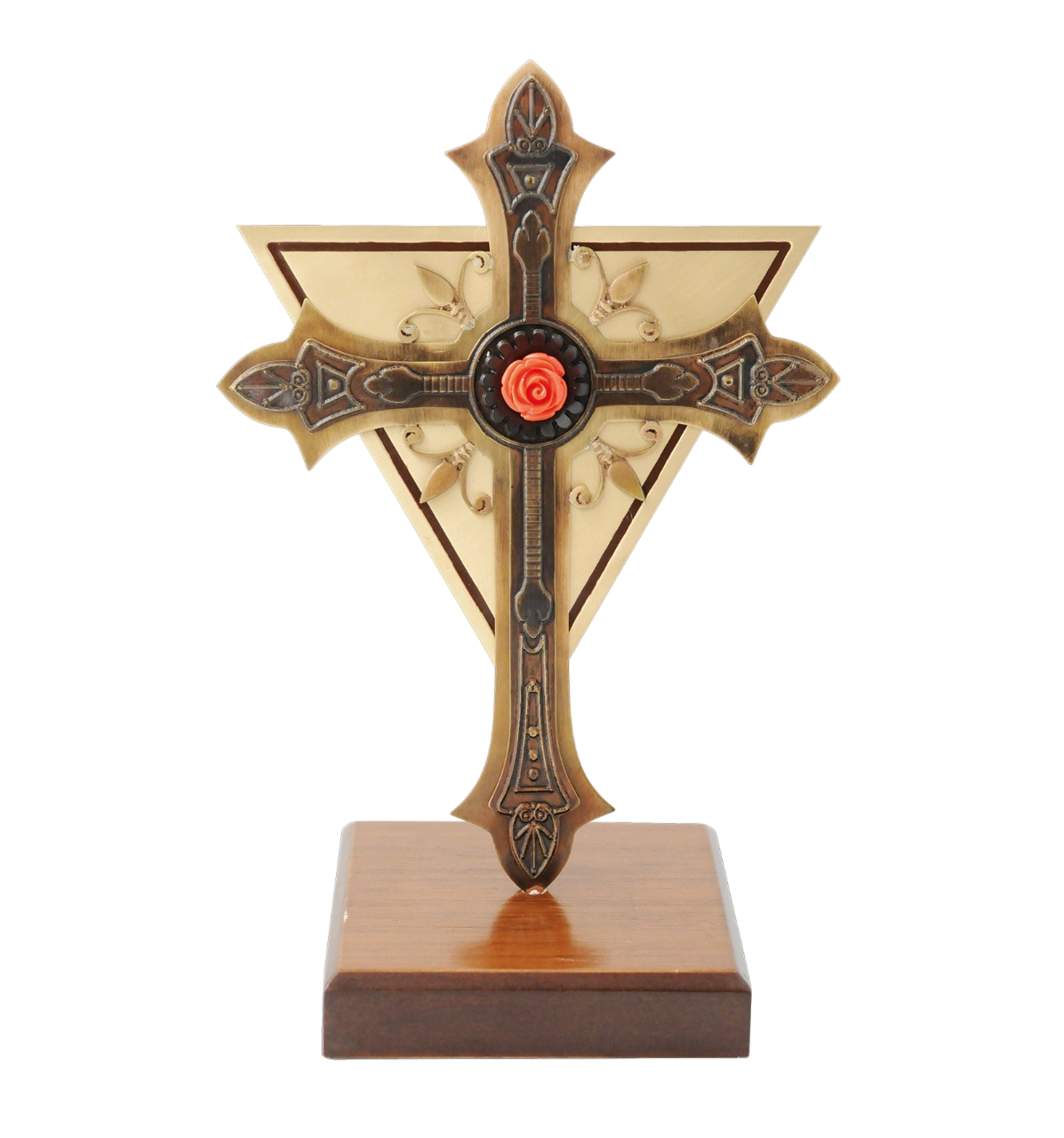 Rosicrucian Order Master's Cross Medal